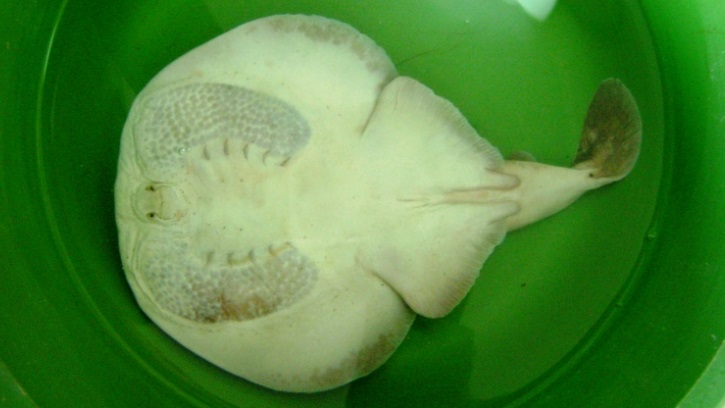 Numbray (Narke dipterygia) at Karachi